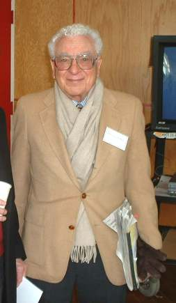 Murray Gell-Mann at Harvard University - I took the picture and declare it public domain - Lubos Motl - lumidek